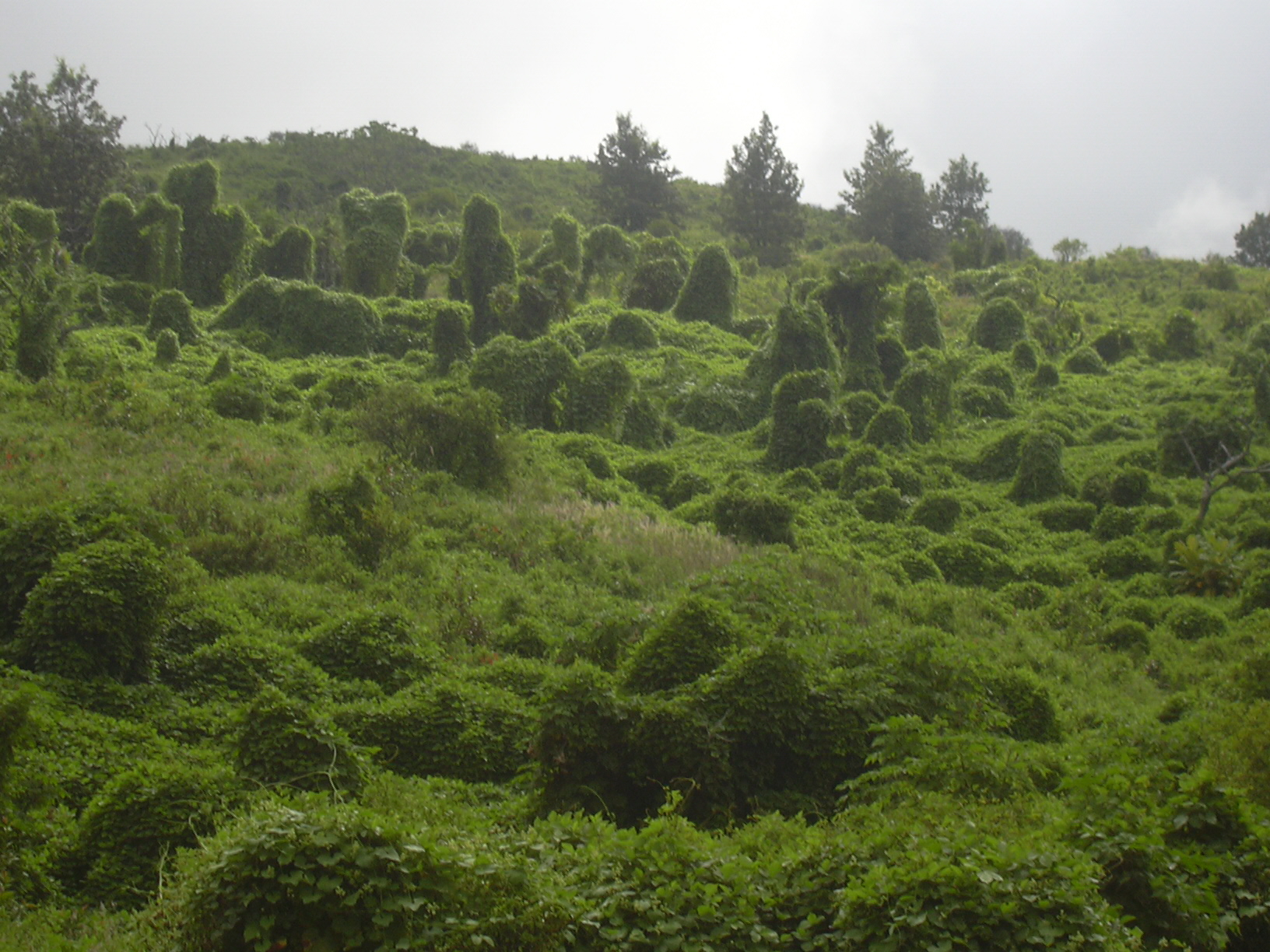 Neonotonia wightii (habit). Location: Maui, Kanaio